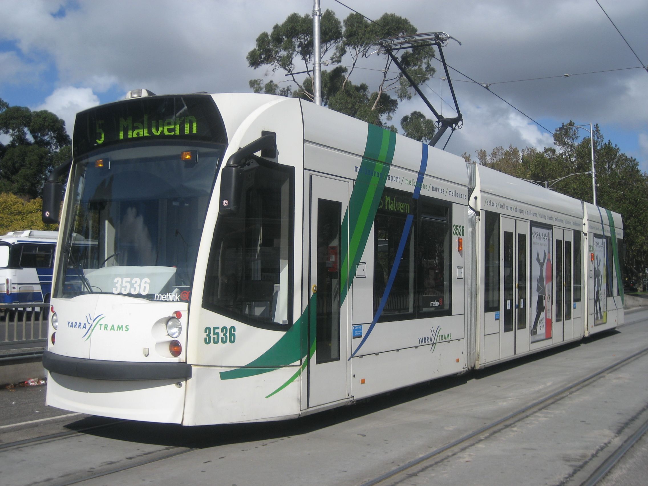 D1.3536 at the Arts Centre, St Kilda Road.